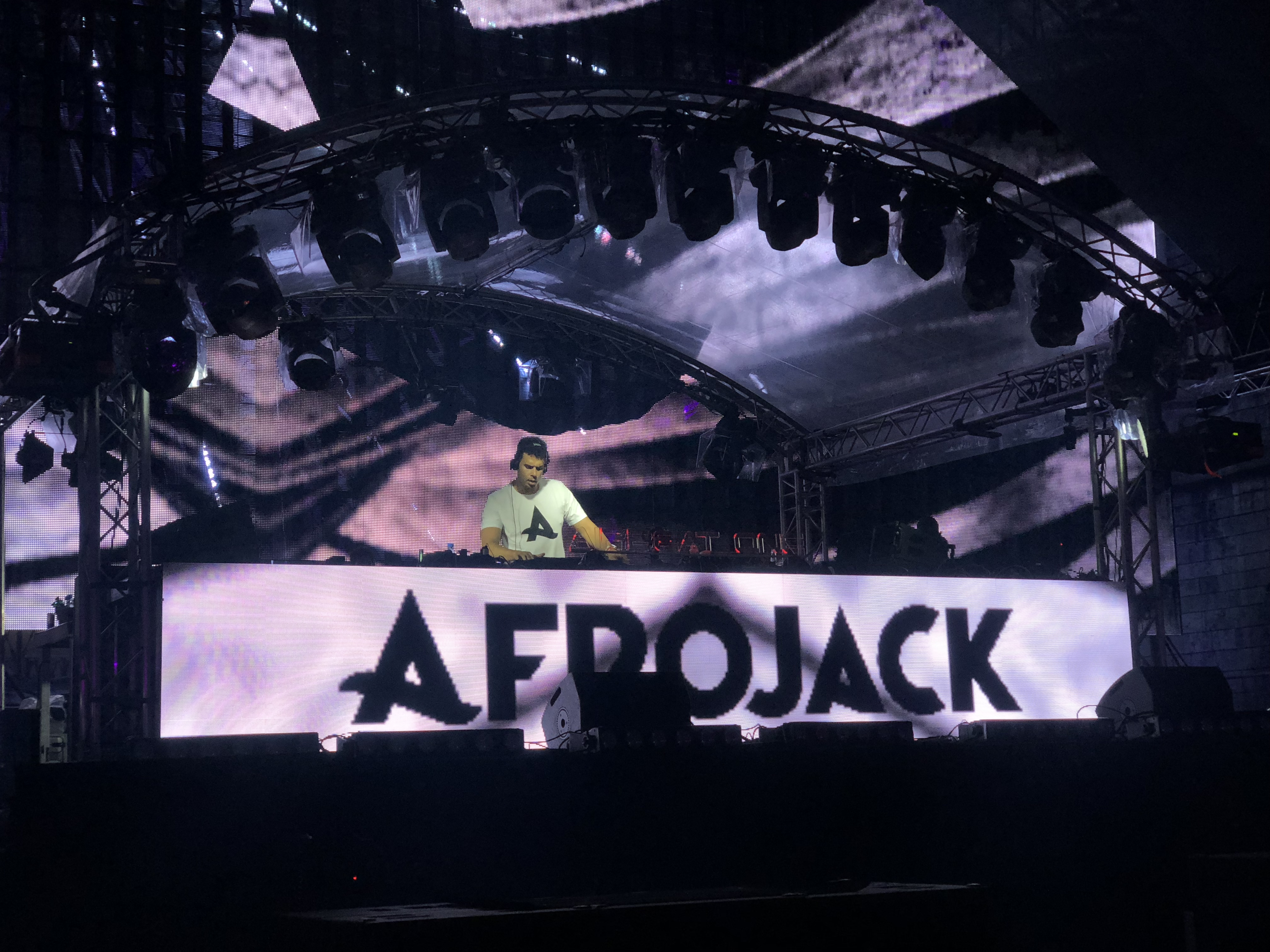 Afrojack playing live at Airbeat One Festival 2018, Neustadt-Glewe, Germany.